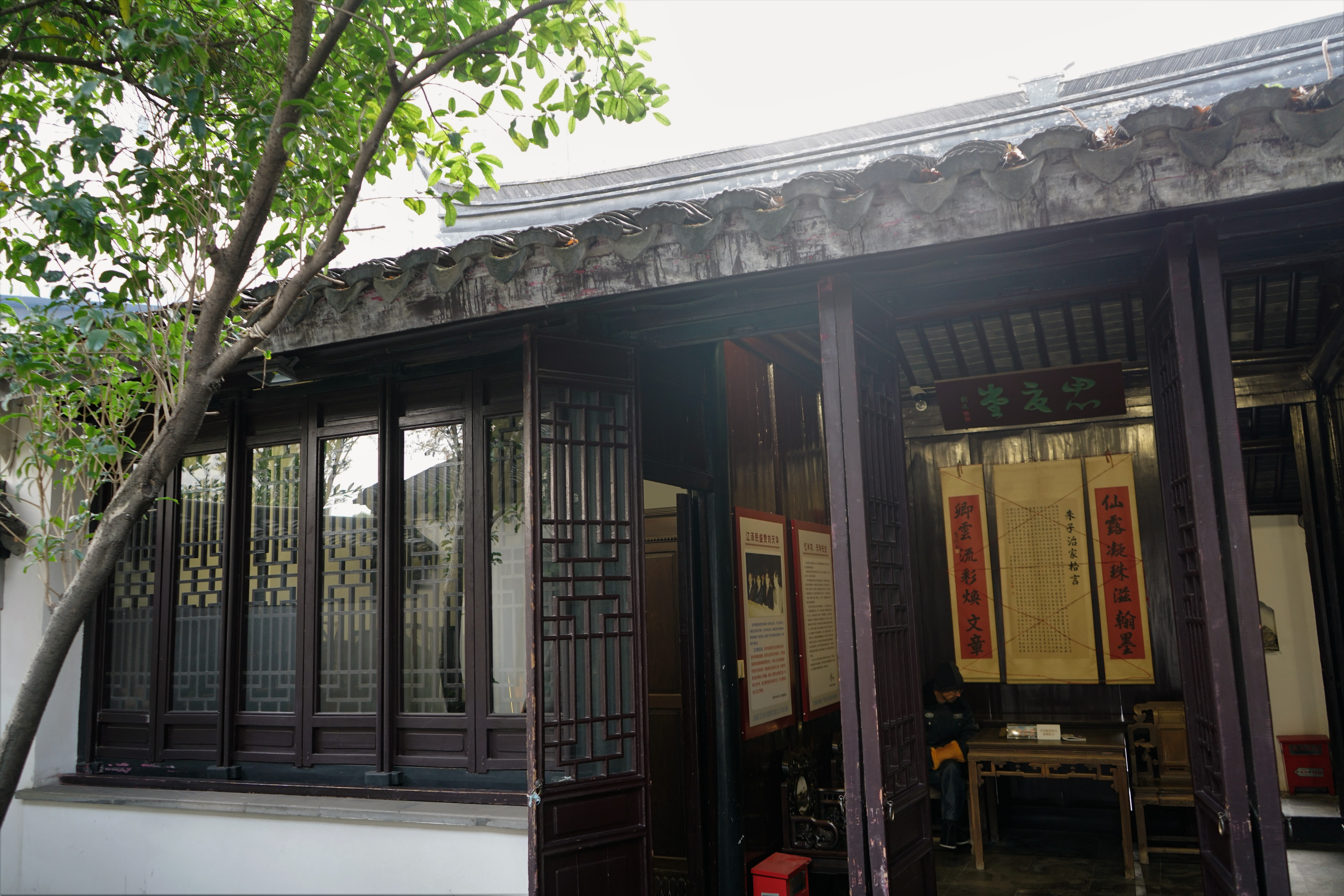 Sixia Hall